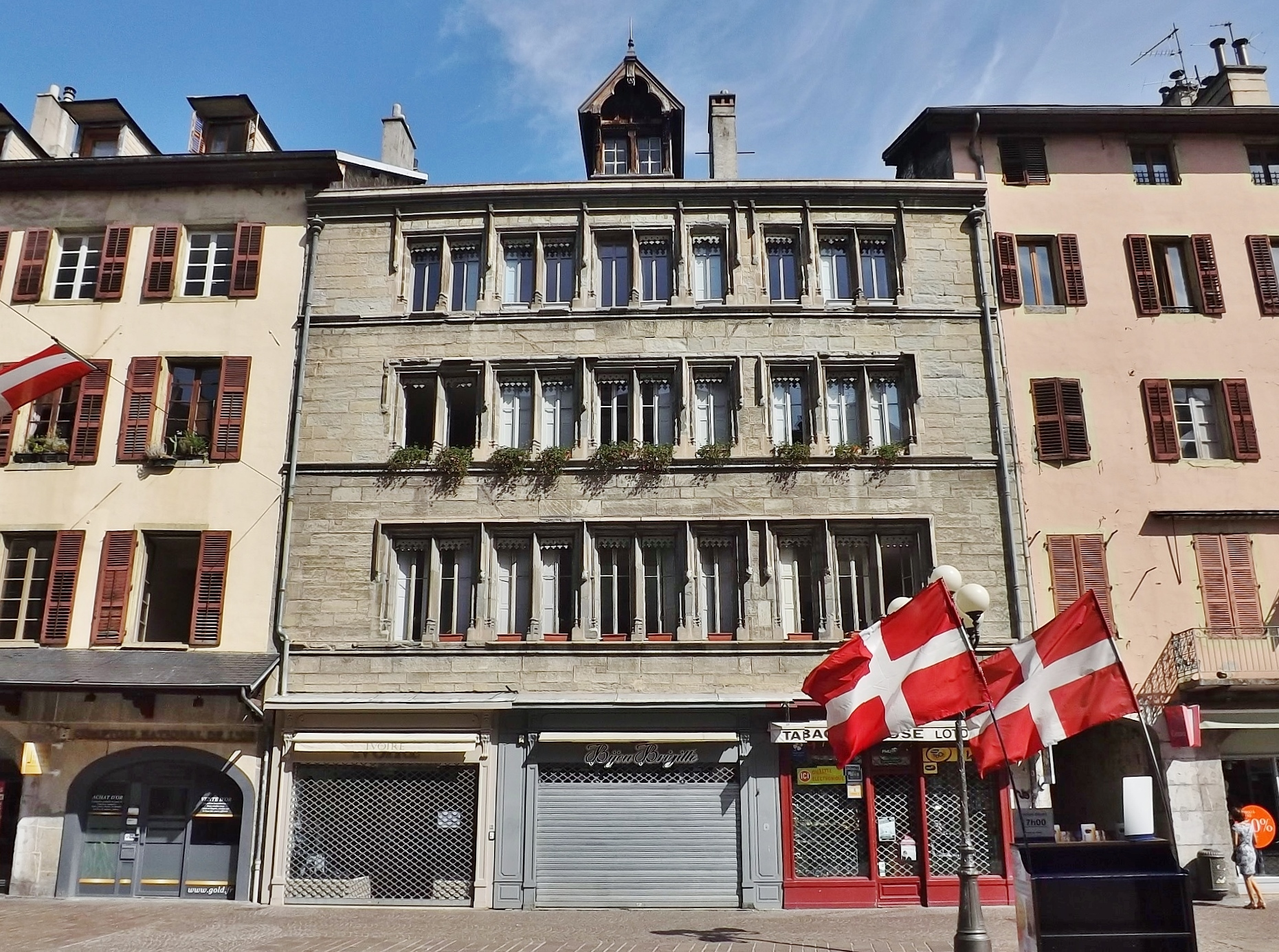 Sight of the hôtel Dieulefis building, in Chambéry, Savoie, France.